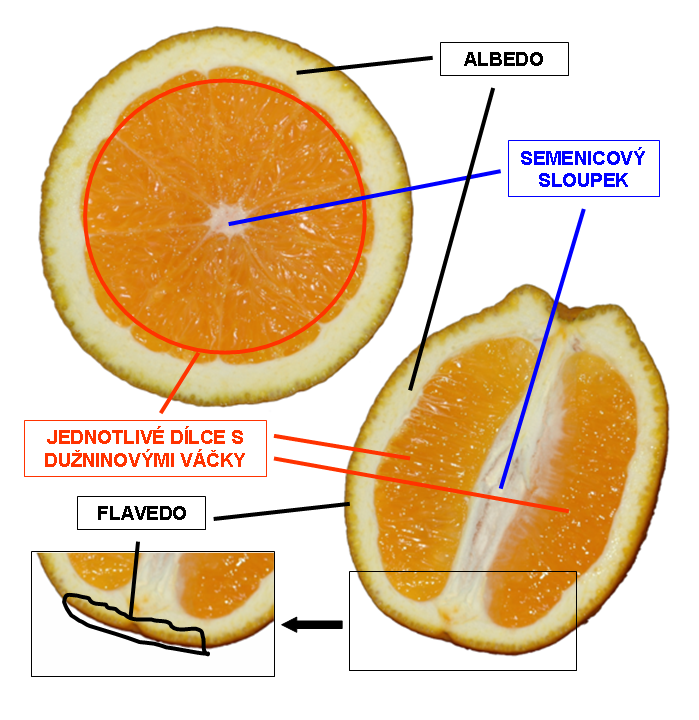 orange cross section picture with legend in Czech language.